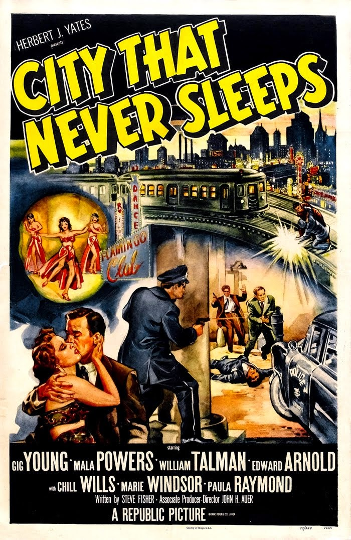 Poster for the 1953 film City That Never Sleeps. The item has no copyright markings on it as can be seen in the links above. At bottom is Country of origin USA, 53/334 and 44581. These look to be associated with the printing of the poster.